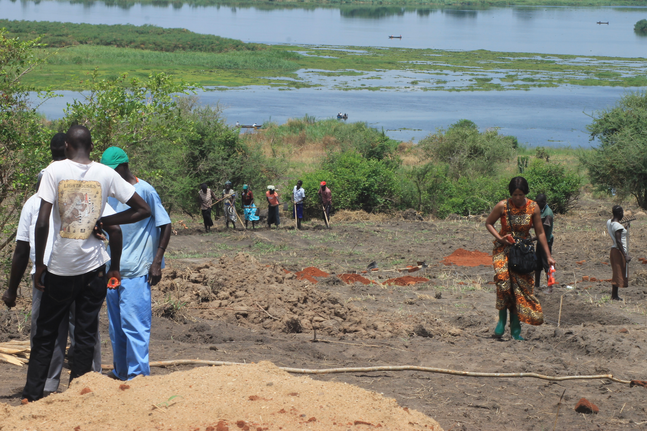 In this photograph i was fascinated by the different factors at play. In the background mostly women are digging/weeding the construction site while in the foreground the men who will be doing construction mostly consult a lodge owner from the neighboring lodge. Walking up to join the men is the female entrepreneur/owner of the new safari lodge being constructed. This is an image of "African people at work" from Uganda